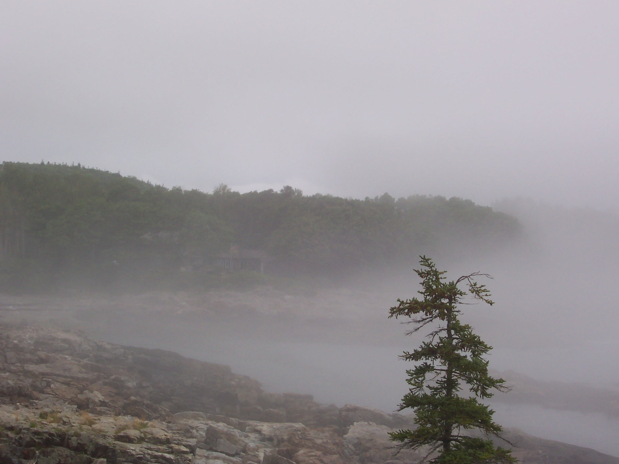 Acadia National Park covered by fog taken July 7, 2005 by User:Michael180 with Kodak EasyShare CX6330.